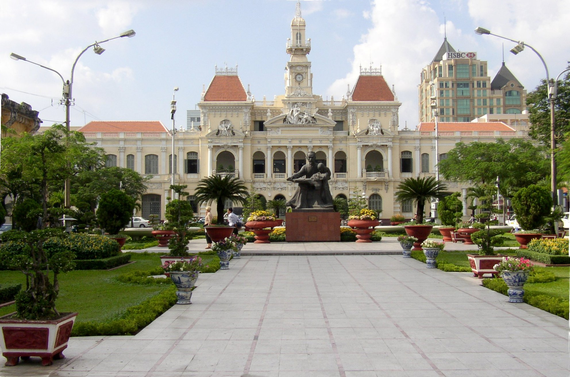 Hồ Chí Minh memorial in Thành phố Hồ Chí Minh